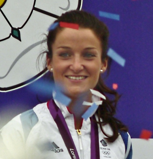 Liz Armitstead (road cycling silver medallist), Sarah Barrow and Alicia Blagg (Team GB divers) at the civic reception